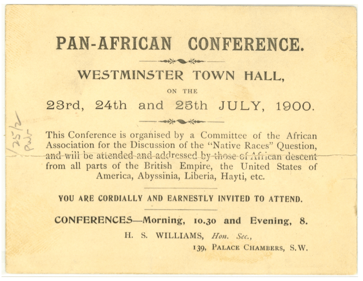 Concerning upcoming Pan-African Conference at Westminster Town Hall, London July 23, 24, and 25 of July 1900.